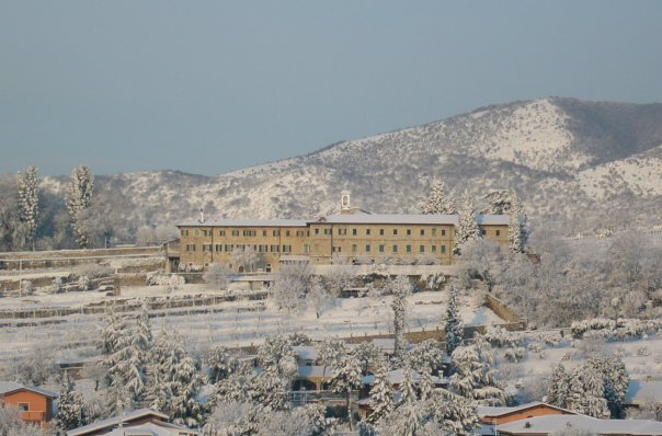 Convento Rezzato.